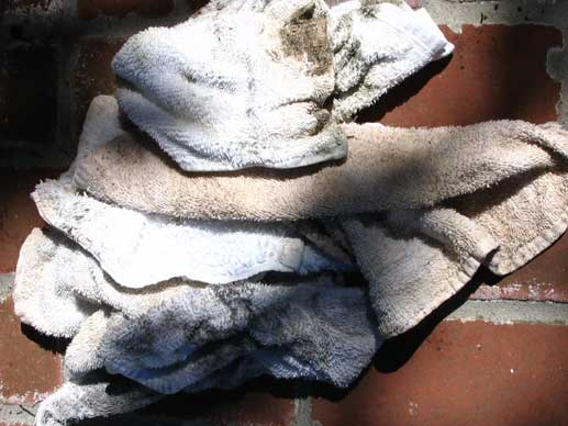 Several dirty rags waiting to be cleaned. They were originaly purchased in COSTCO.